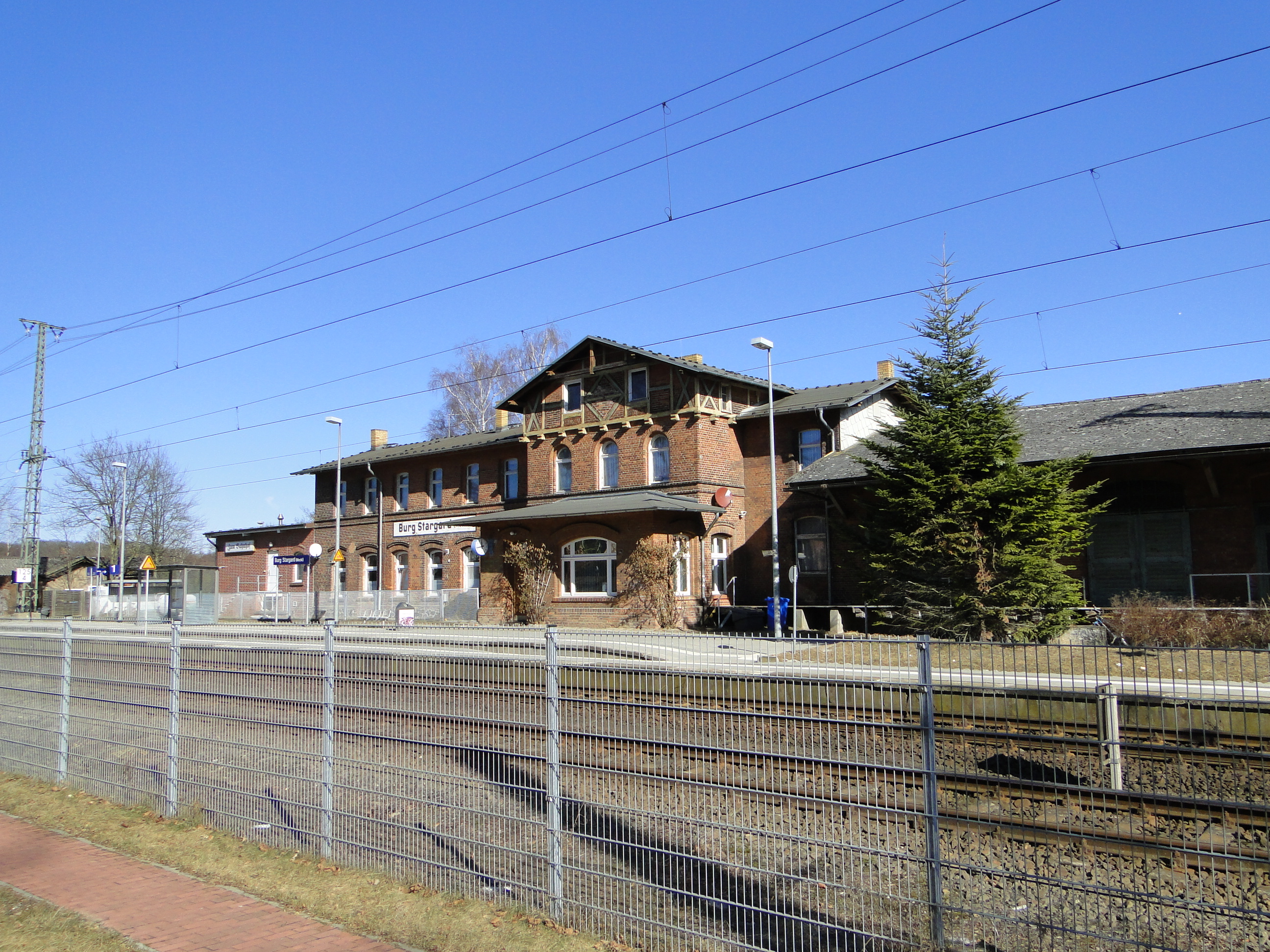 Train station in Burg Stargard, district Mecklenburg-Strelitz, Mecklenburg-Vorpommern, Germany